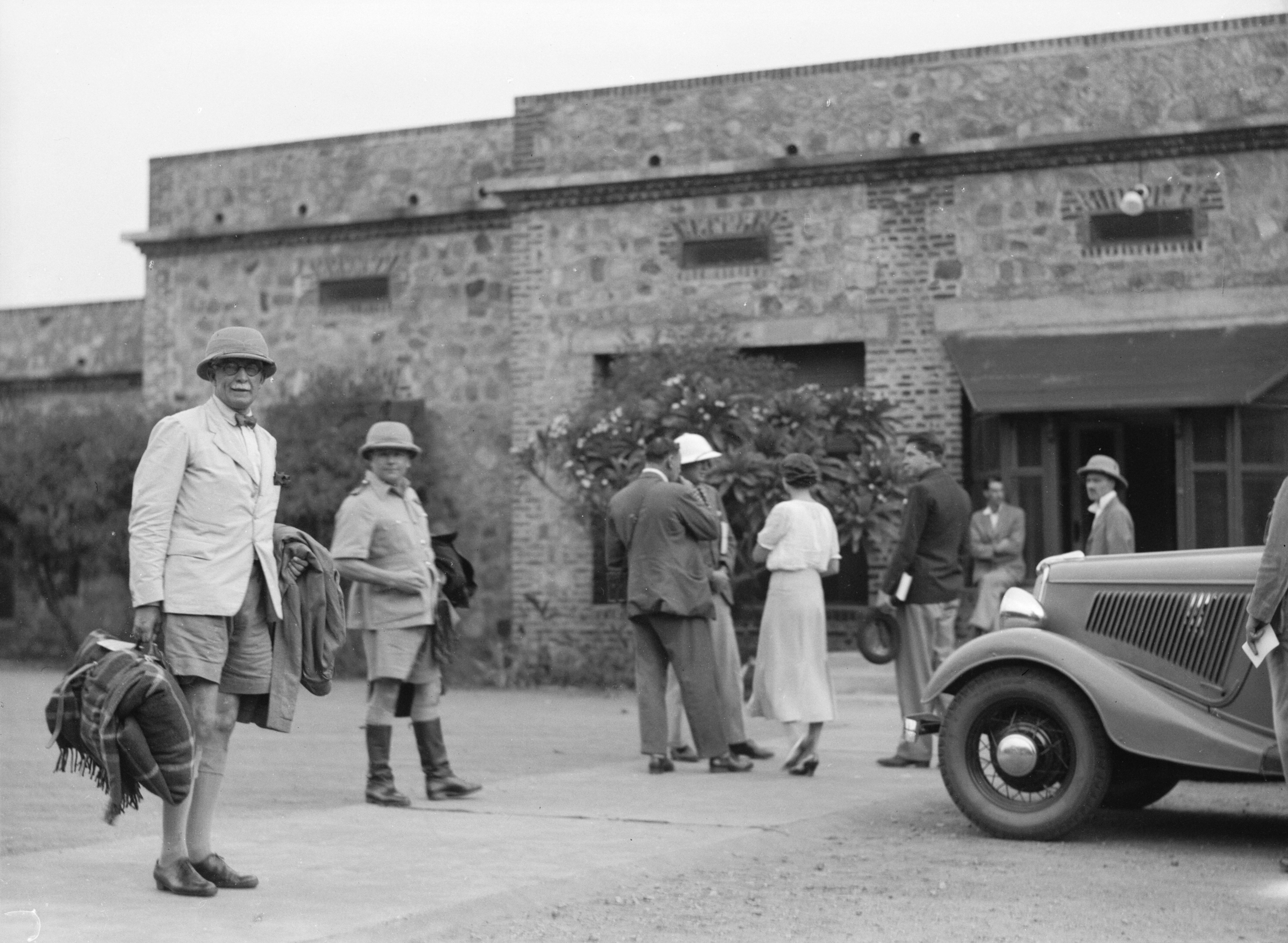 Sudan. Juba Hotel, Equatoria, South Sudan.